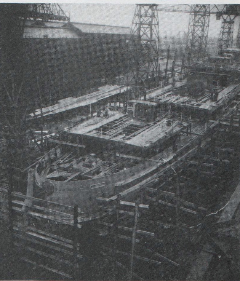 Tynwald pictured under construction at Barrow-in-Furness